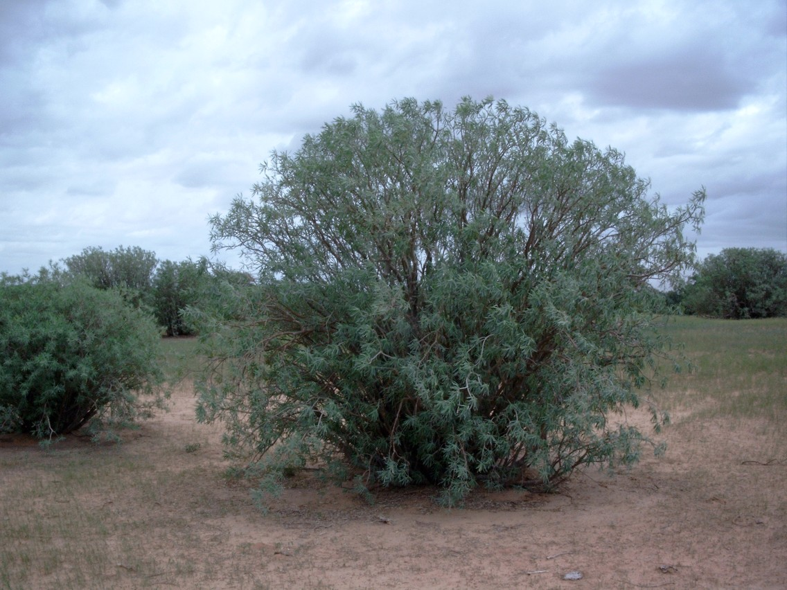 Euphorbia balsamifera north of Oursi, Burkina Faso.